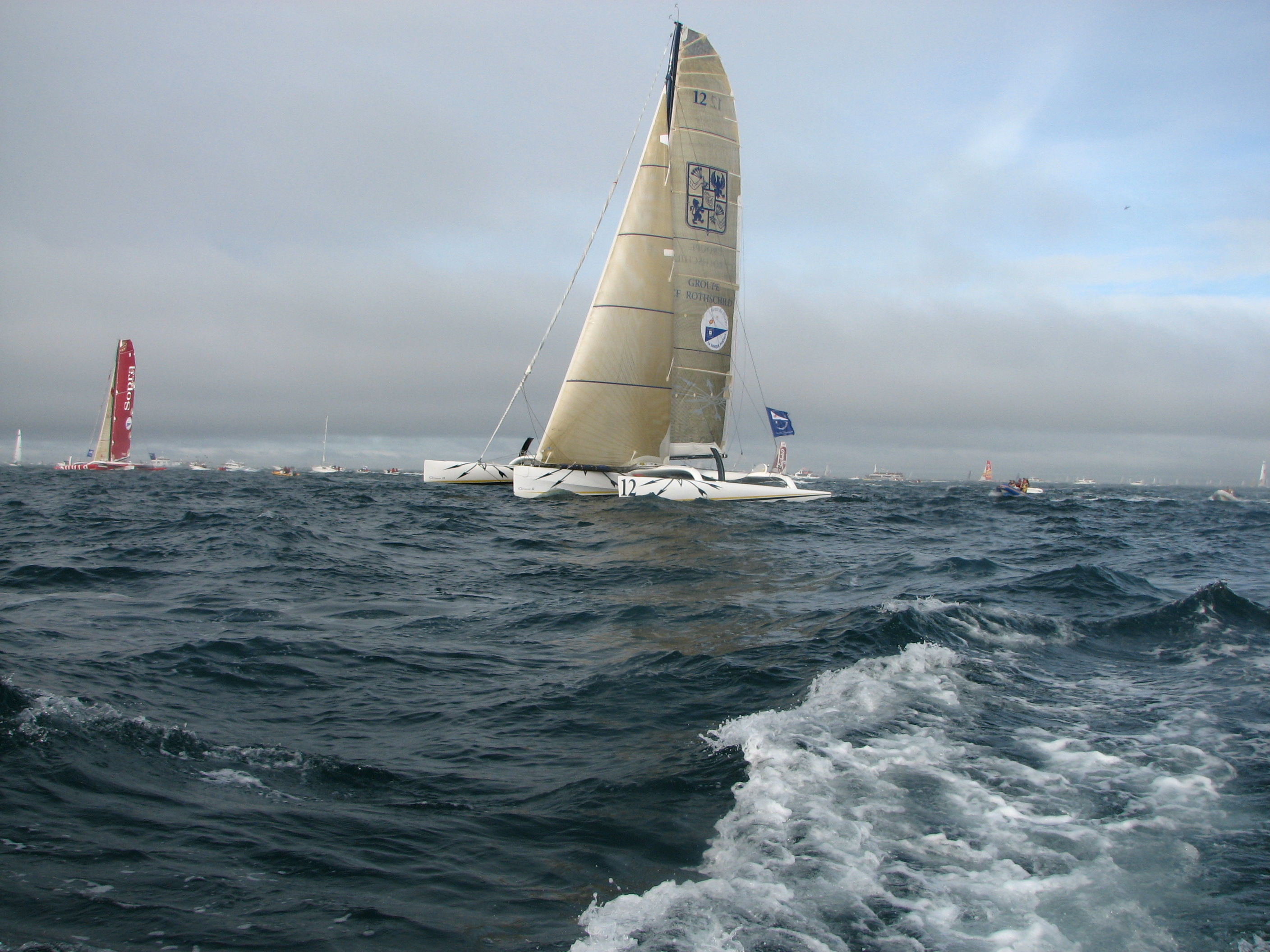 Gitana 12 (formerly Bonduelle, 1999) at the Route du Rhum departure off Saint-Malo.